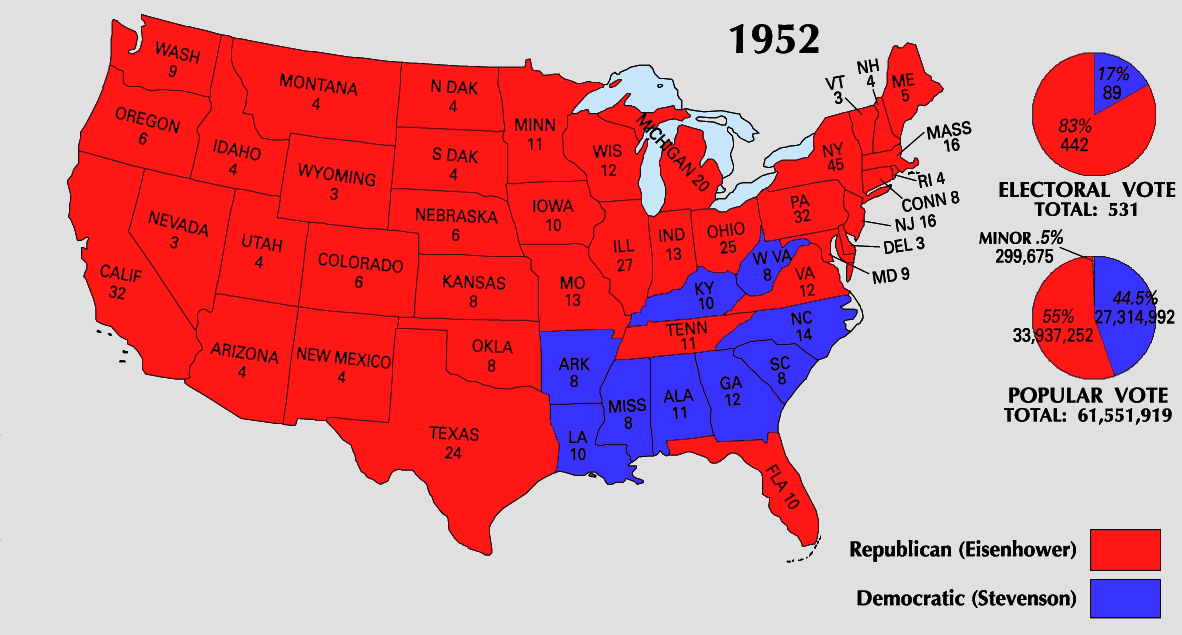 1952 Electoral College Map